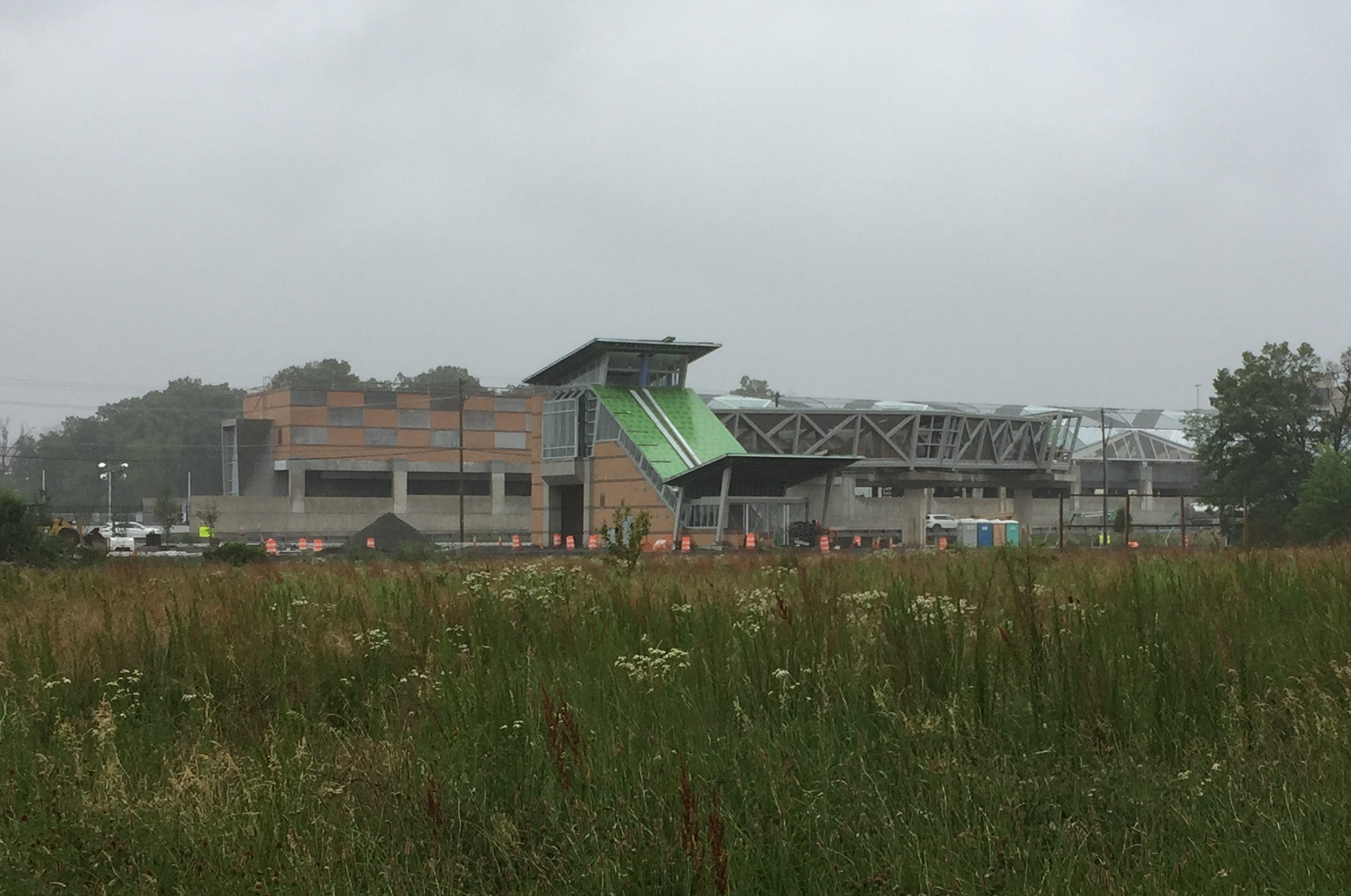 Construction of Ashburn WMATA station in 2019